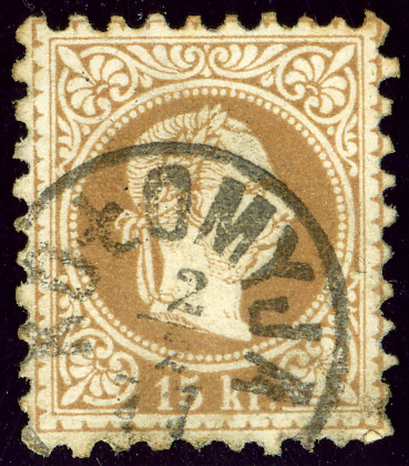 Austrian KK 15 kr stamp, cancelled in 1871 at Kołomyja (Polish), Galicia (now Ukraine); precursor name (before 1850) was KOLOMEA.